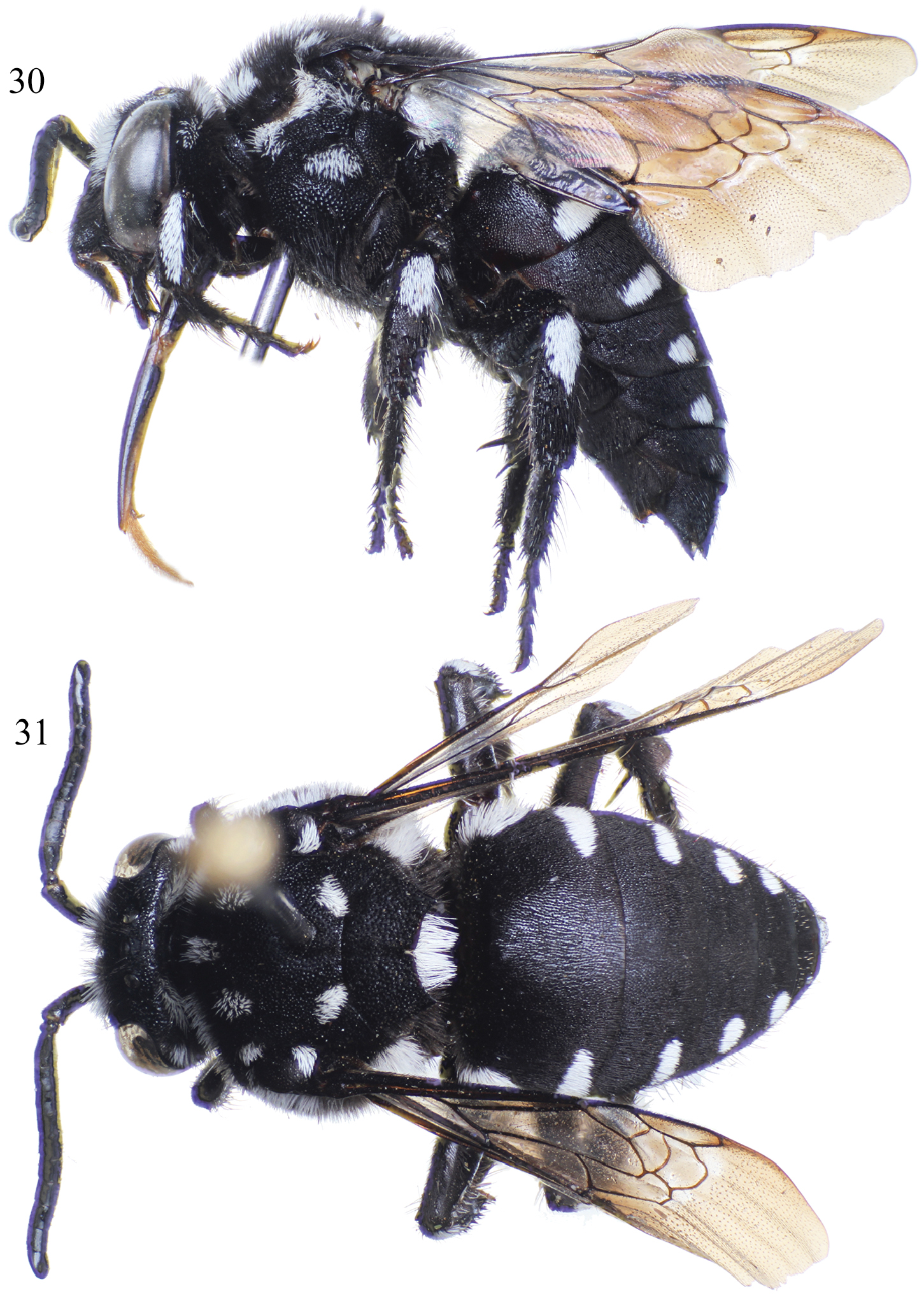 Female of Thyreus aistleitneri from Brava. 30 Lateral habitus 31 Dorsal habitus.